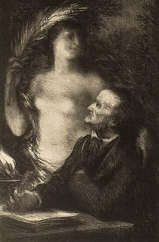 "La Muse (Richard Wagner)" by Henri Fantin-Latour (1836-1904). Lithograph, Auckland Art Gallery, Auckland, New Zealand